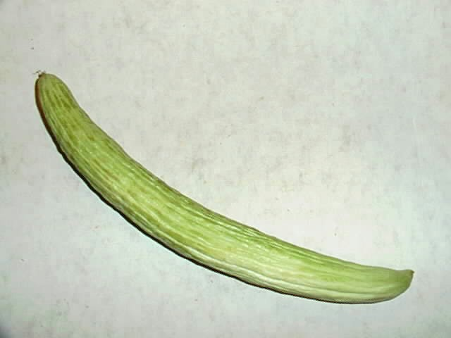 Kakri (Botanical name Cucumis melo var. utilissimus, also spelt as Kakadi, Kakree or Kakari) is a widely cultivated fruit in India.